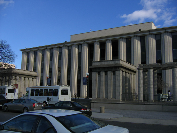 McDonough Hall, the main classroom building at Georgetown University Law Center.